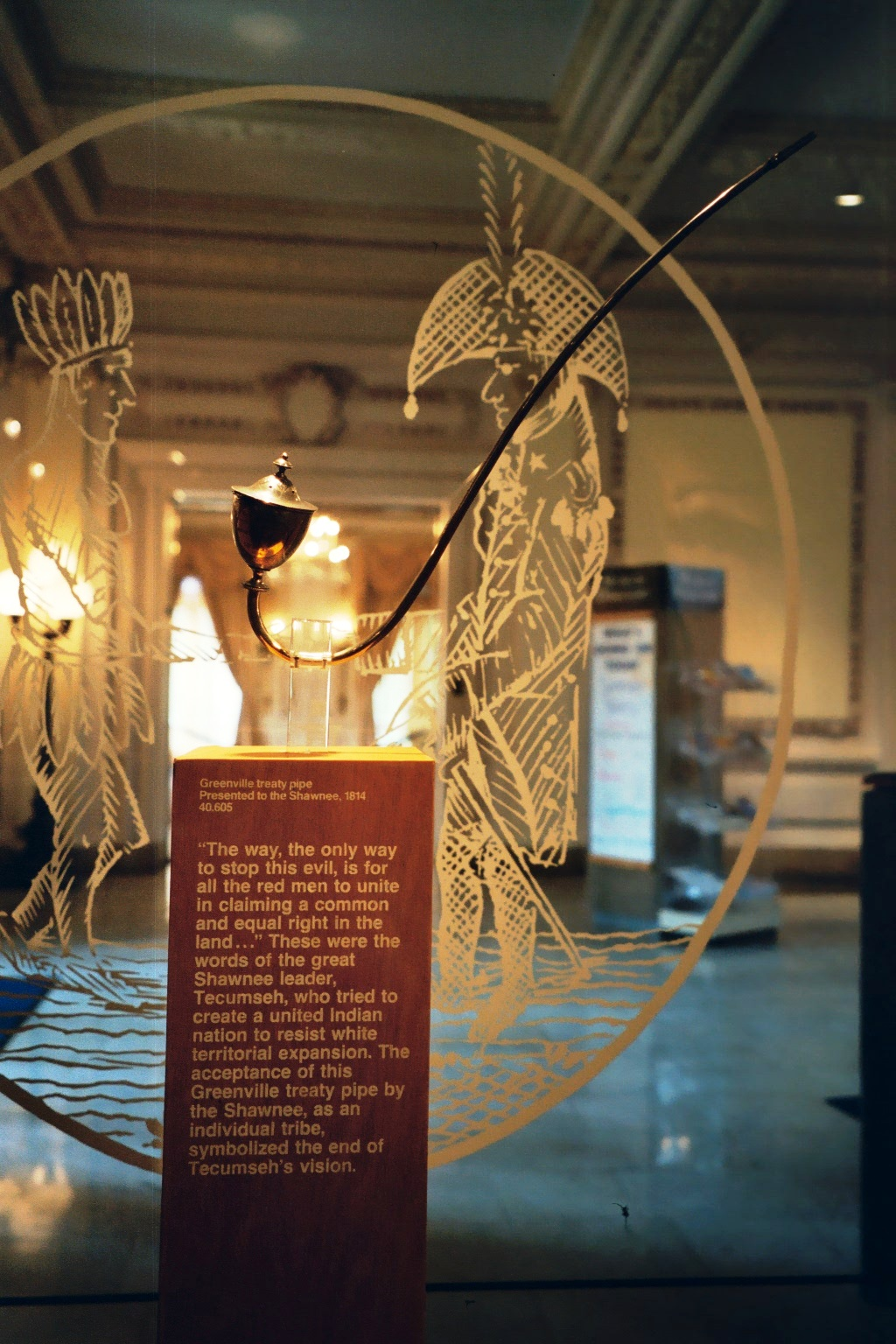 Pipe presented to the Shawnees by the United States of America at the second Greenville Treaty 22 Jul 1814